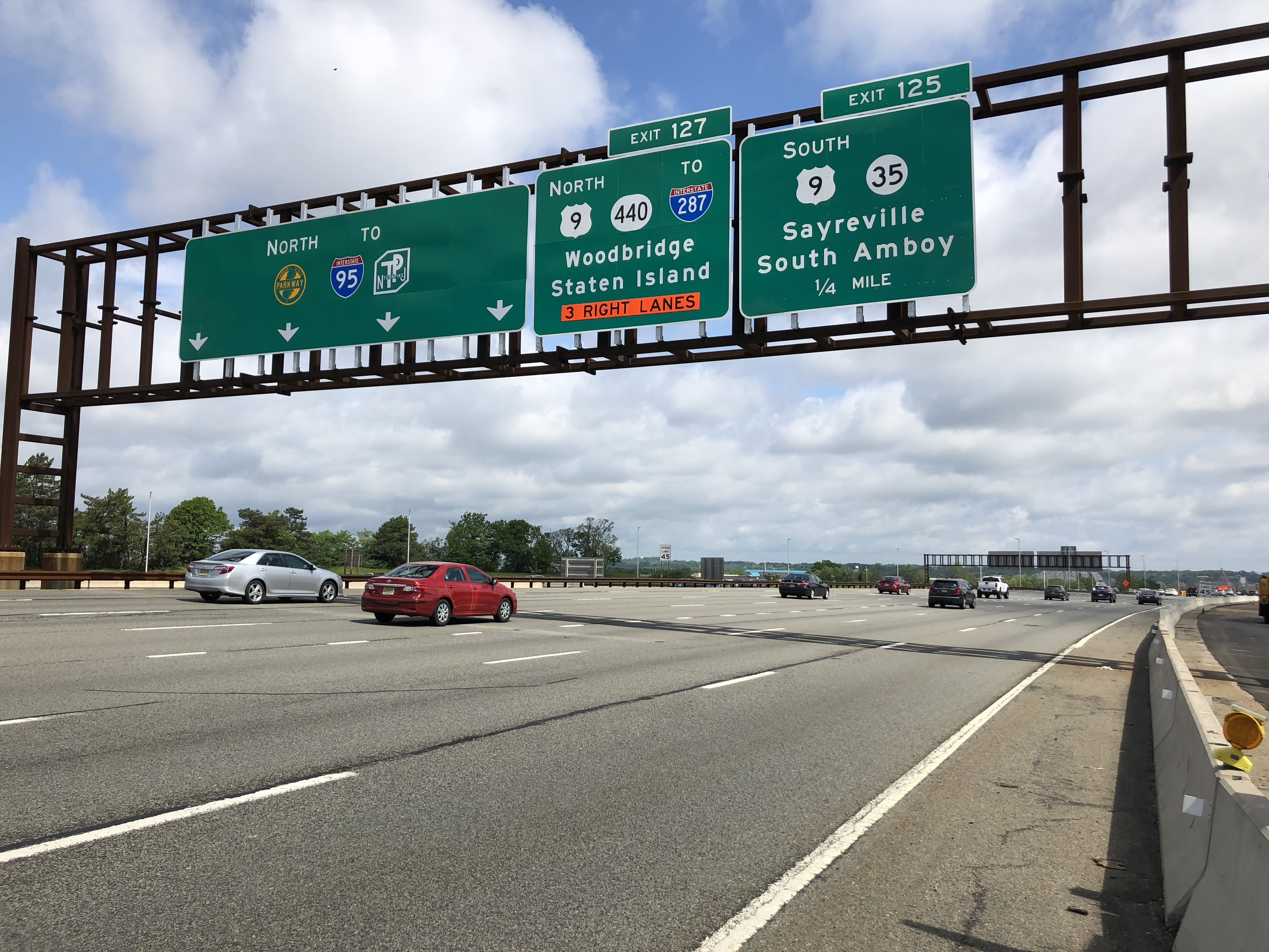 View south along New Jersey State Route 444 (Garden State Parkway) at Exit 125 (U.S. Route 9 SOUTH, New Jersey State Route 35, Sayreville, South Amboy) in Sayreville, Middlesex County, New Jersey